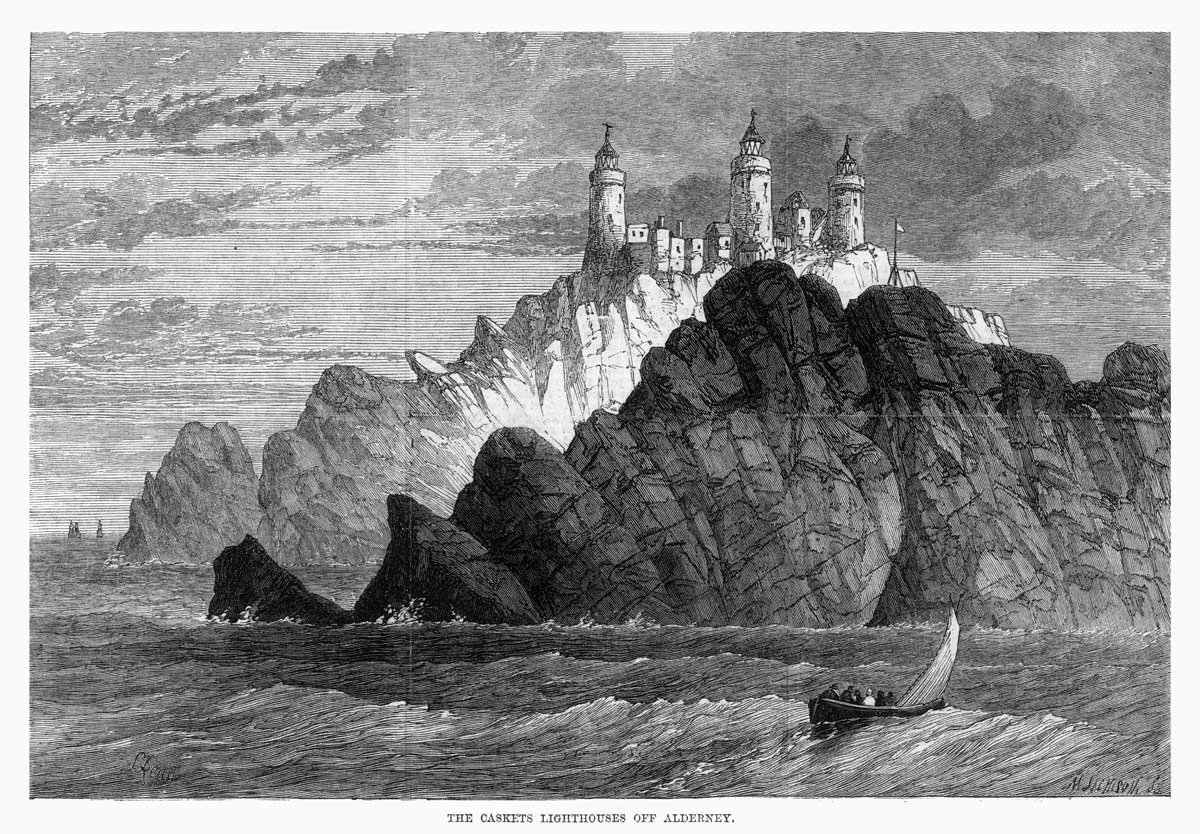 Les Casquets, west of Alderney, Channel Islands, British Isles